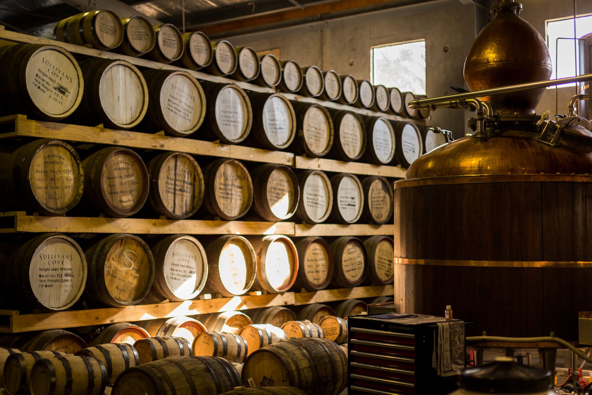 Inside Sullivan's Cove Distillery located in Tasmania, Australia.